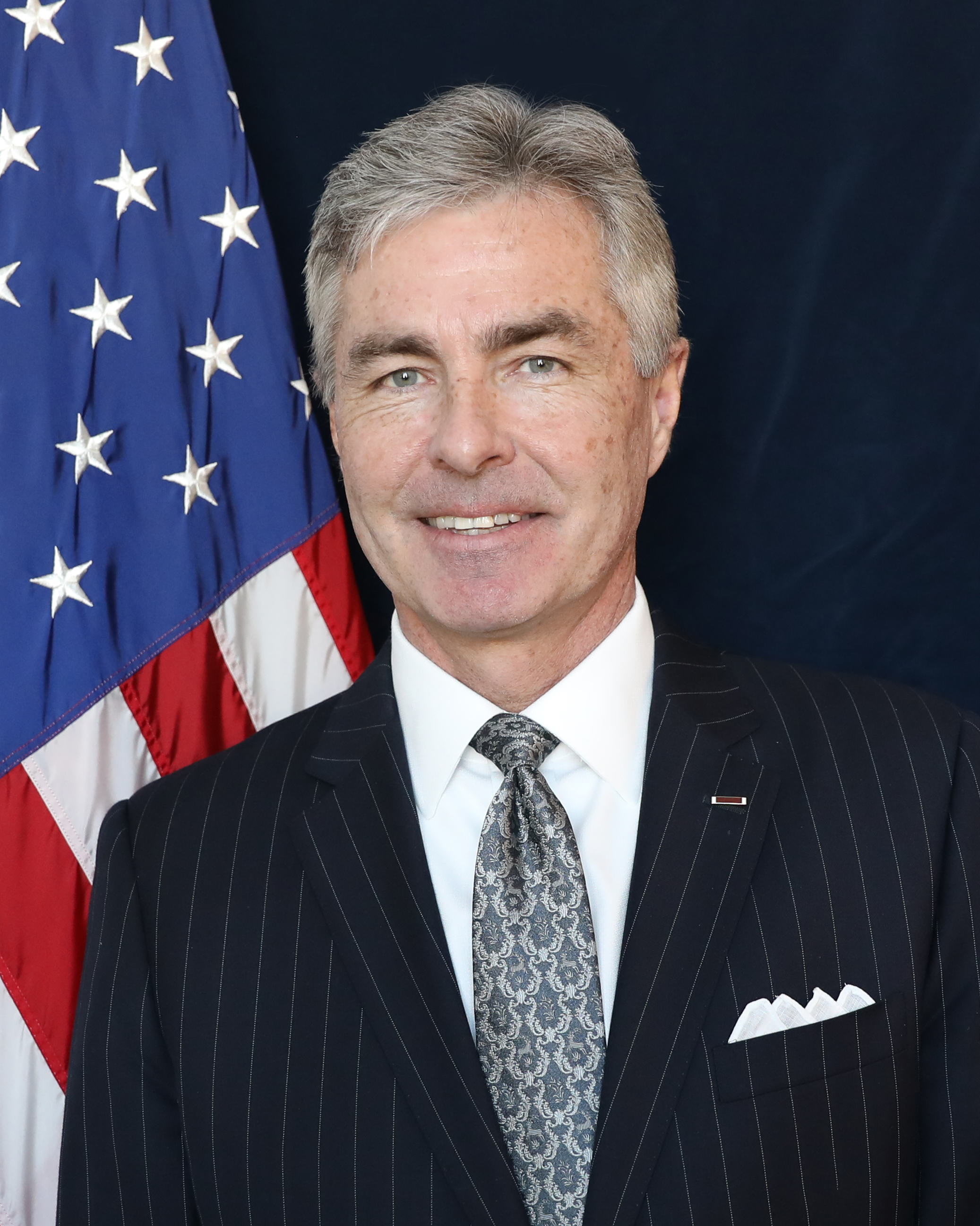 Kenneth J. Braithwaite II, Ambassador to the Kingdom of Norway